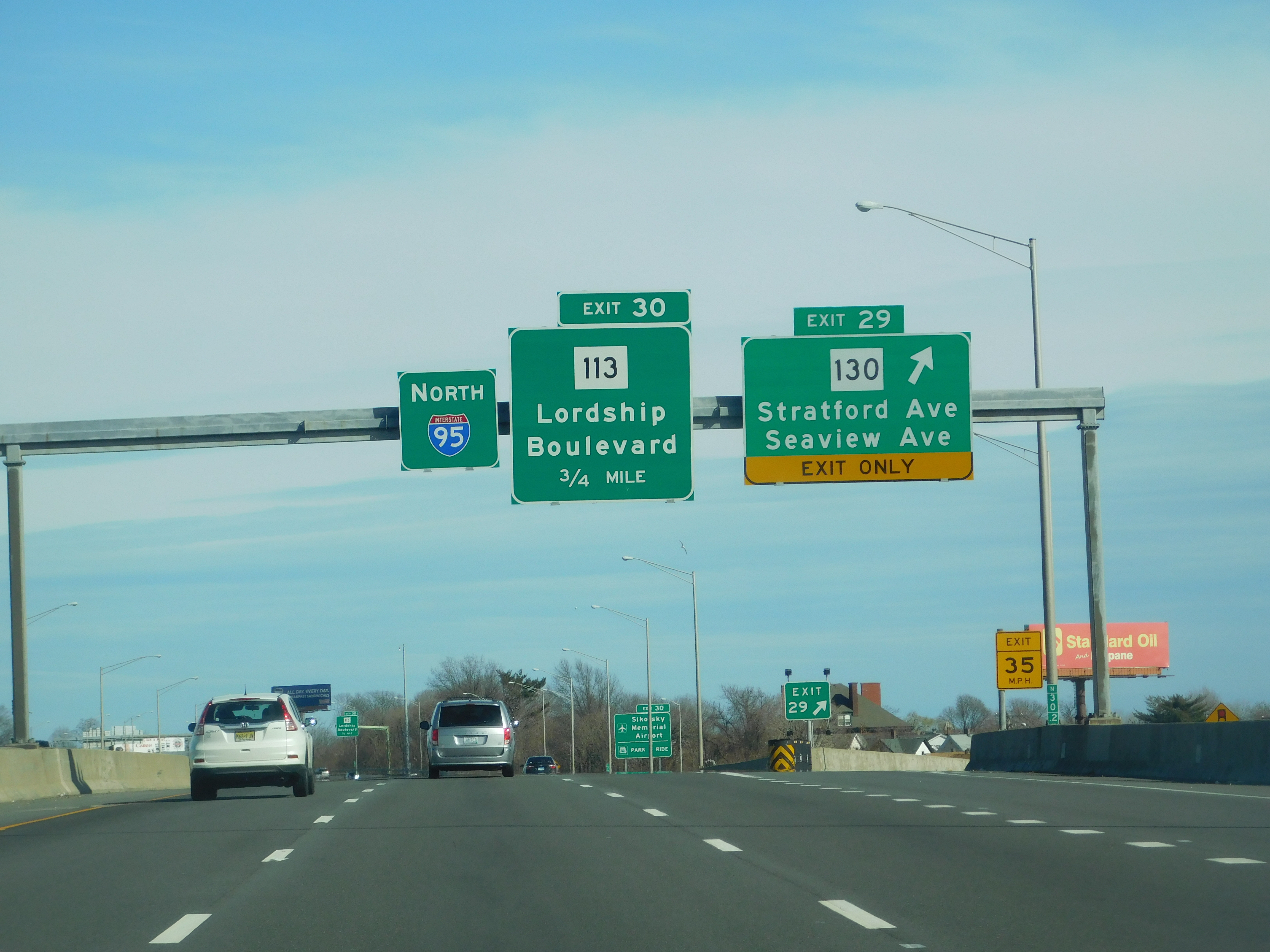 Fairfield County, Connecticut